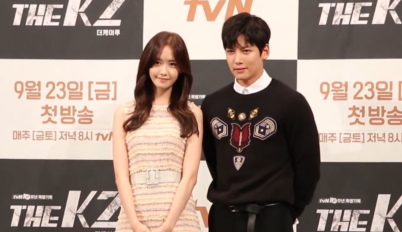 Ji Chang-wook and Yoon-a at THE K2 press conference